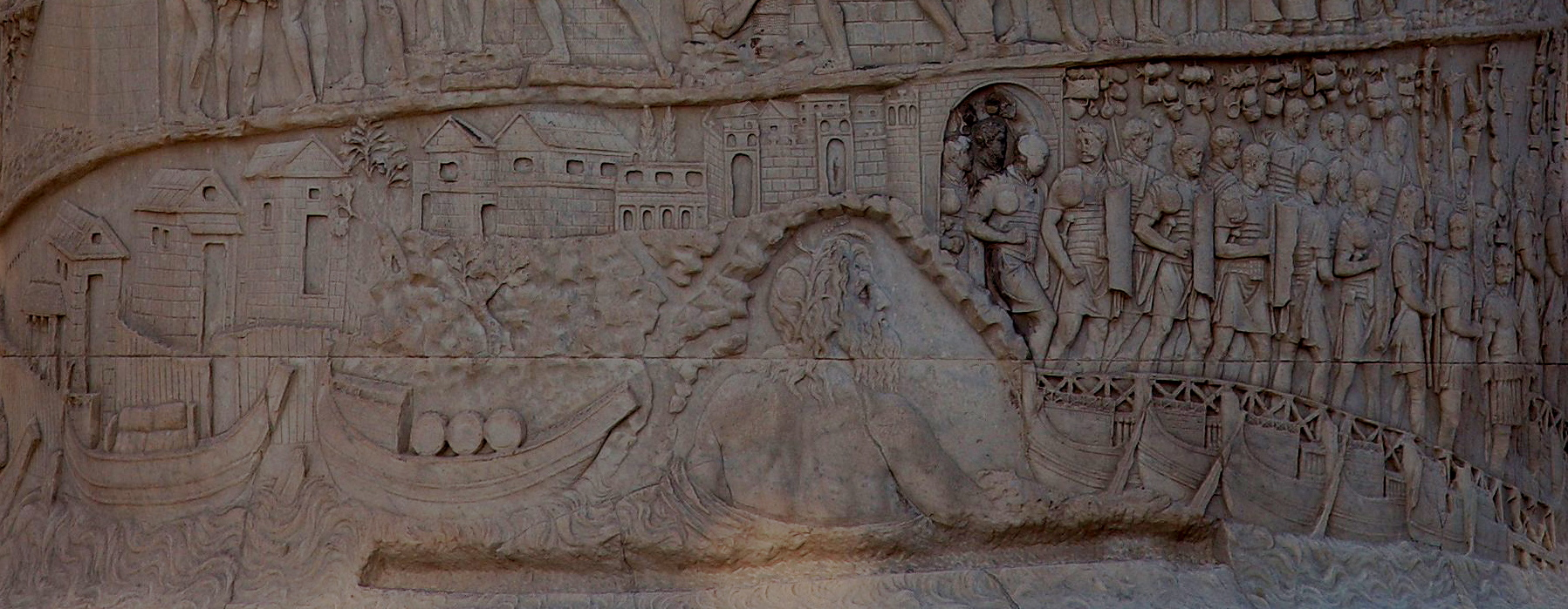 Detailed view of Trajan's column. Panorama from different images, exif taken from the middle one. Cut into pieces by user:sailko